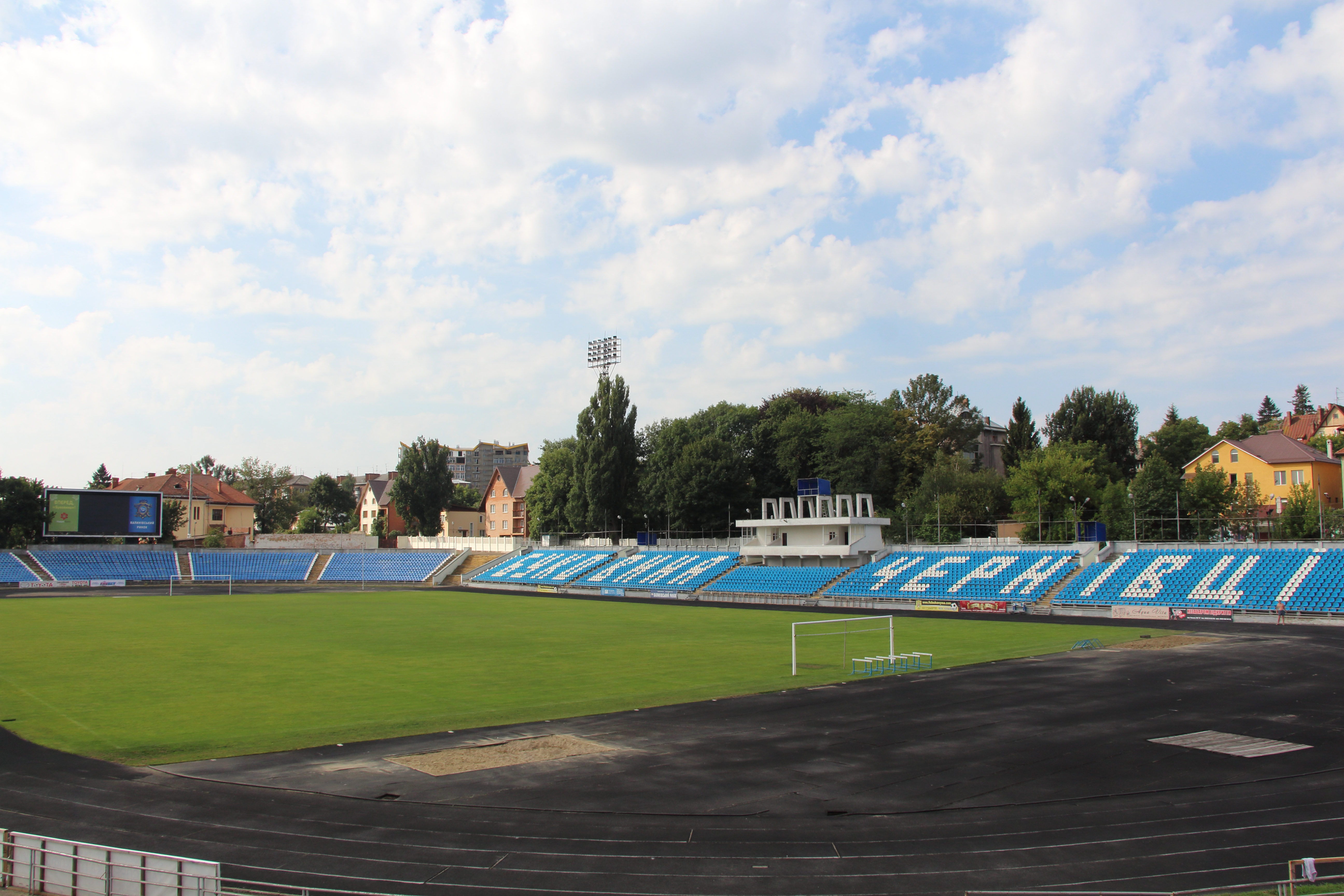 Bukovyna Stadium